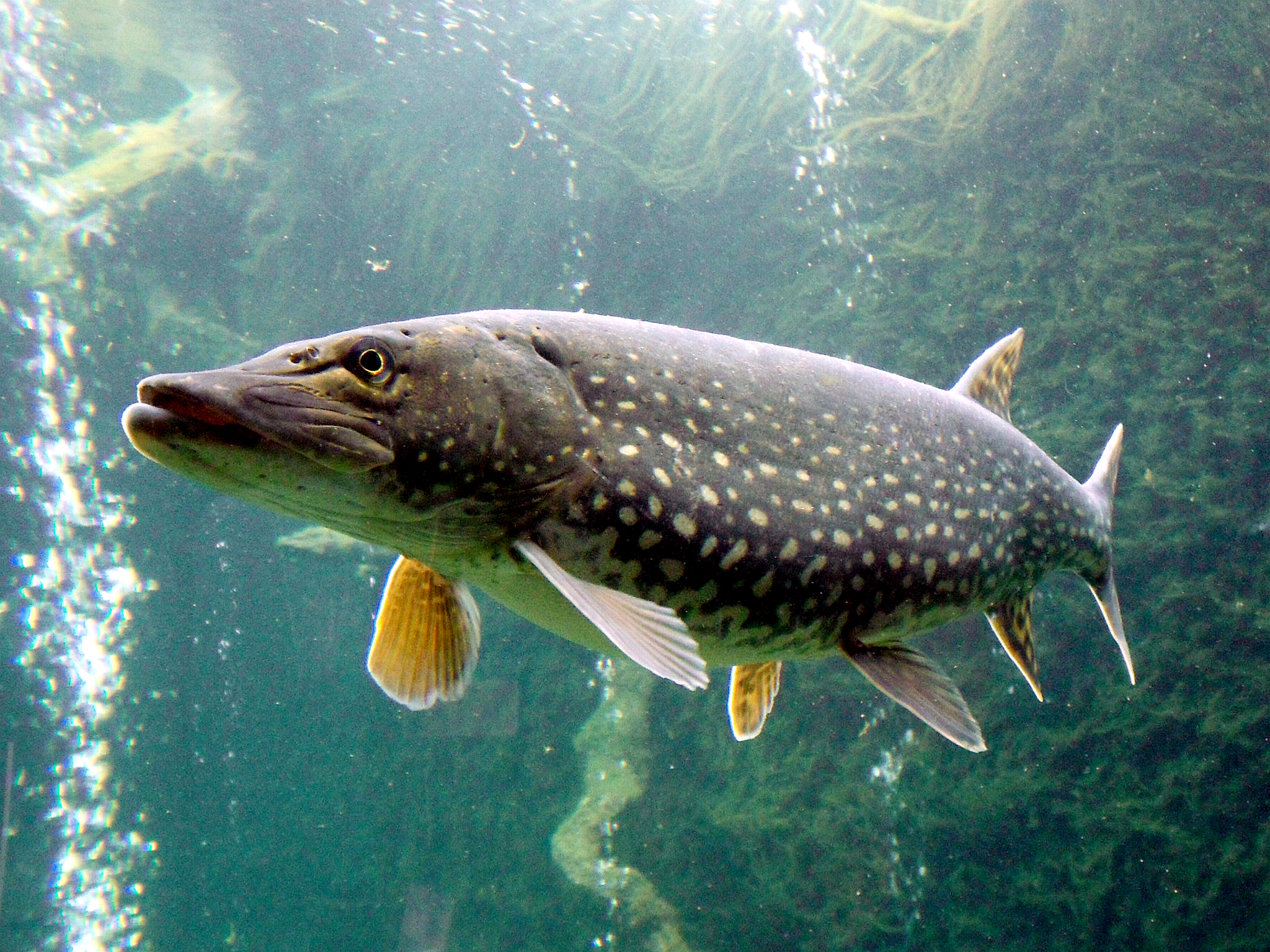 Pike in ZOO Plzeň